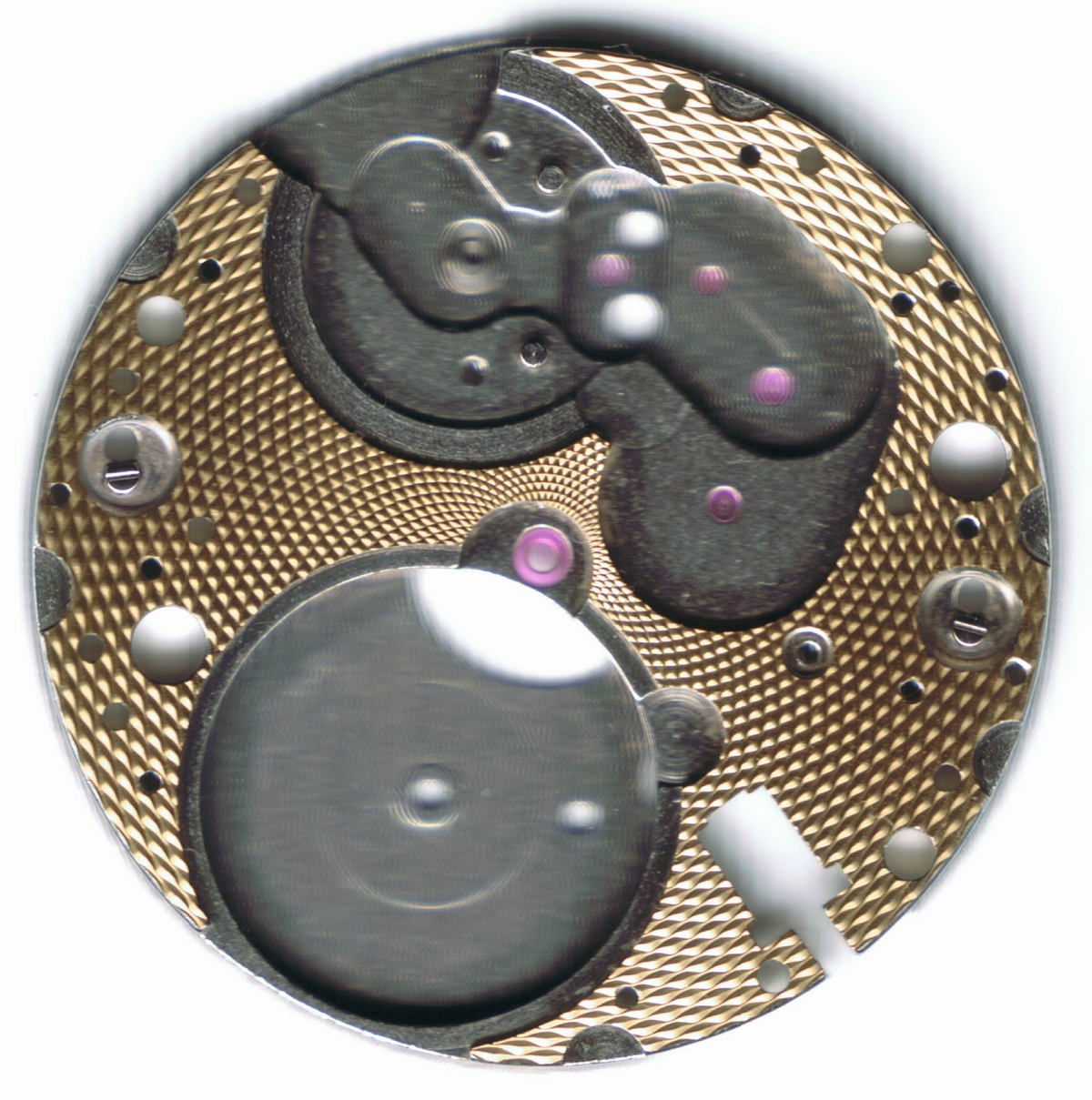 Scanned image of a guilloched barley pattern on the main plate of a mechanical watch movement. Made in Germany.